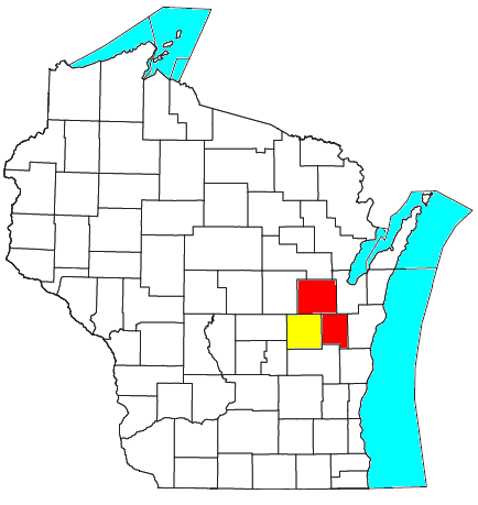 Locator map of the Appleton-Oshkosh-Neenah Combined Statistical Area in the eastern part of the U.S. state of Wisconsin. The two components of the CSA are colored separately: Appleton Metropolitan Statistical Area: red Oshkosh-Neenah Metropolitan Statistical Area: yellow